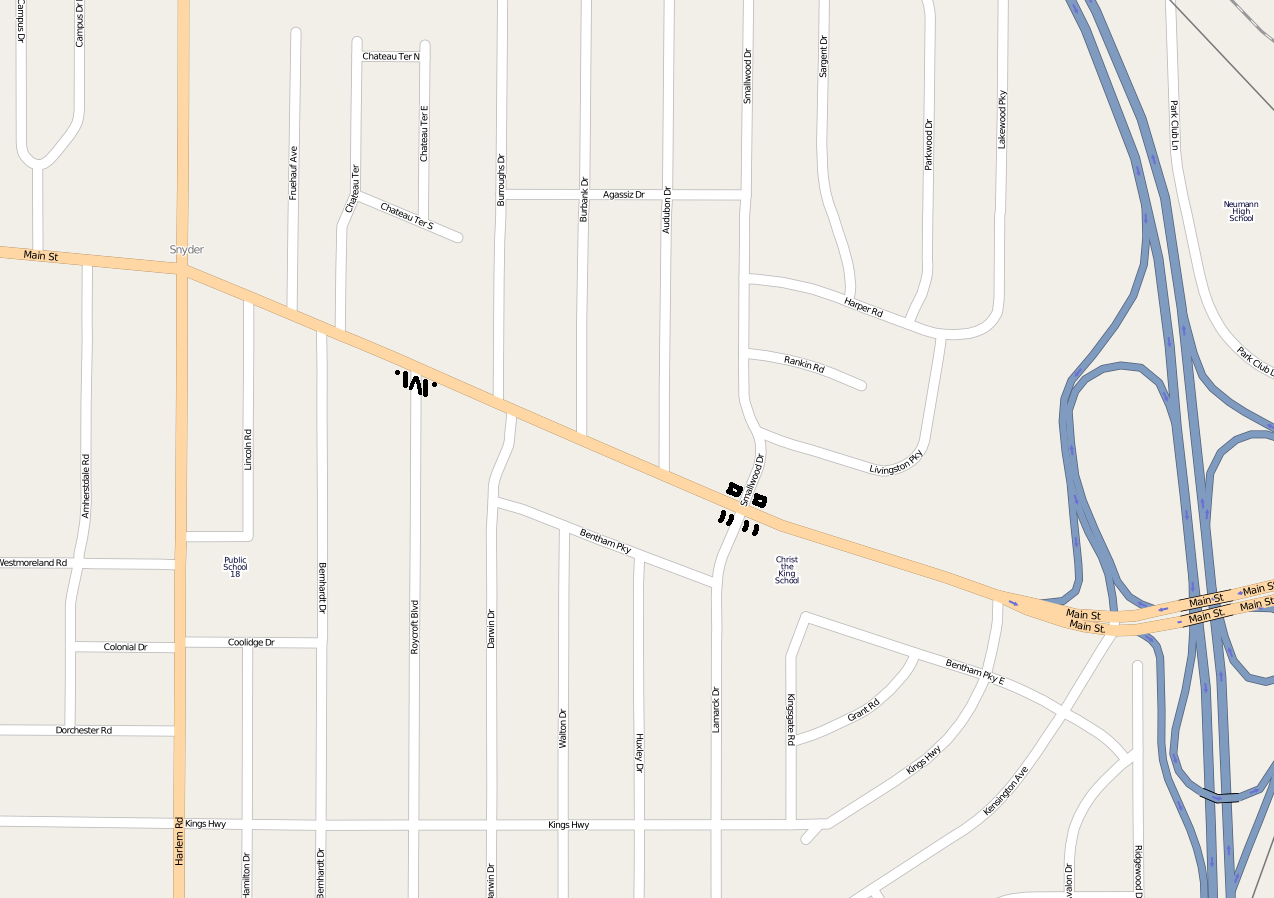 Snyder, New York's National Register of Historic Places-listed Entranceways at Main Street at Lamarck Drive and Smallwood Drive and Entranceway at Main Street at Roycroft Boulevard This map may be incomplete, and may contain errors. Don't rely solely on it for navigation.